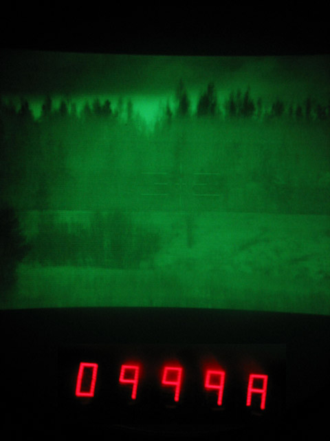 Description = Leopard 2a4 EMES 15 thermal image, 12x magnification with sight designed to engage enemy targets Author = I took the picture myself Date = 14.1.2006 Copyright = Teemu Korhonen (Proximax, view profile to confirm identity. Copy of the original document of Proximax's real name and time in the military can be found here. Social security number has been edited out for safety reasons.)